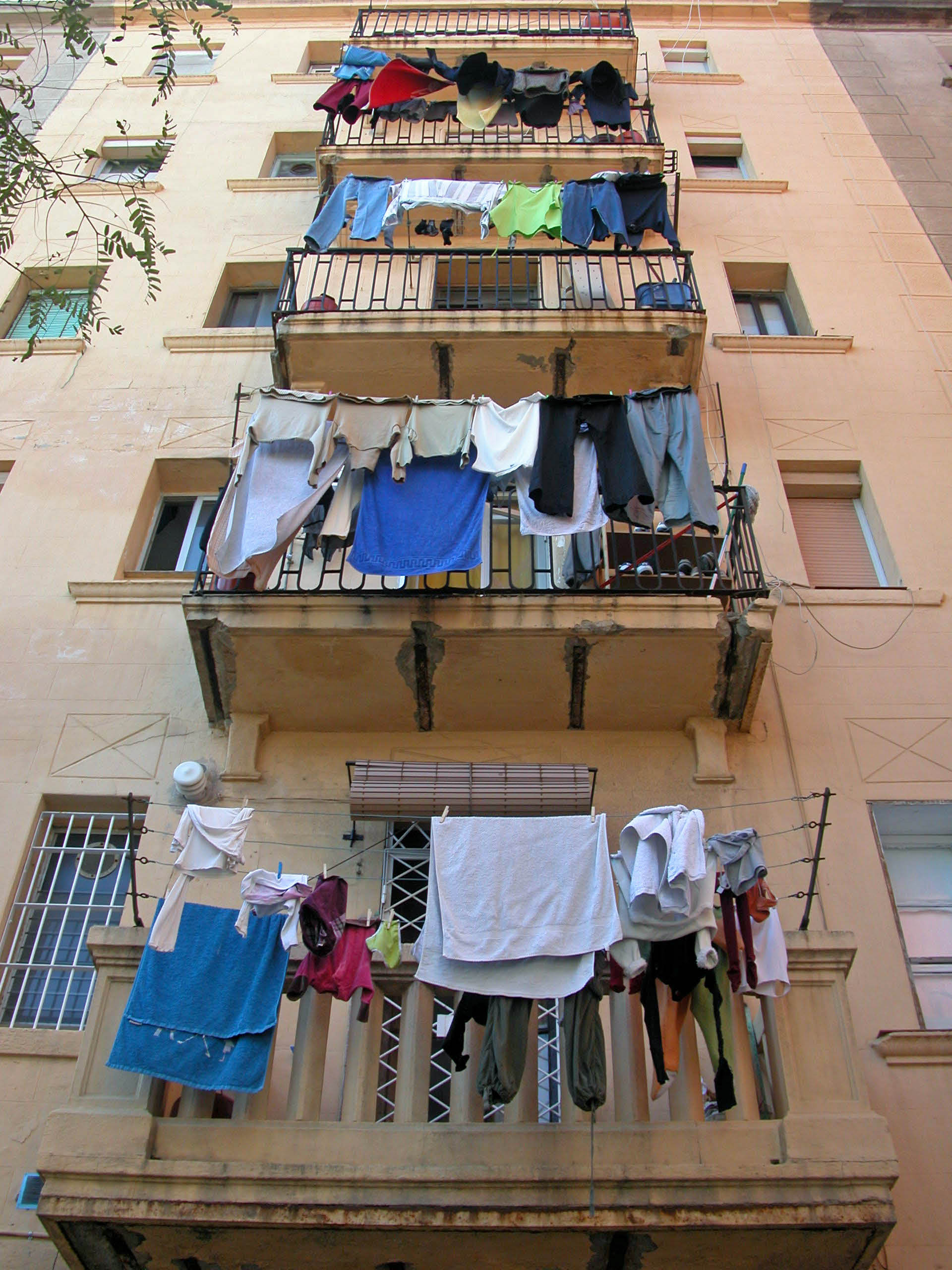 Neighborhood of Barceloneta, Barcelona